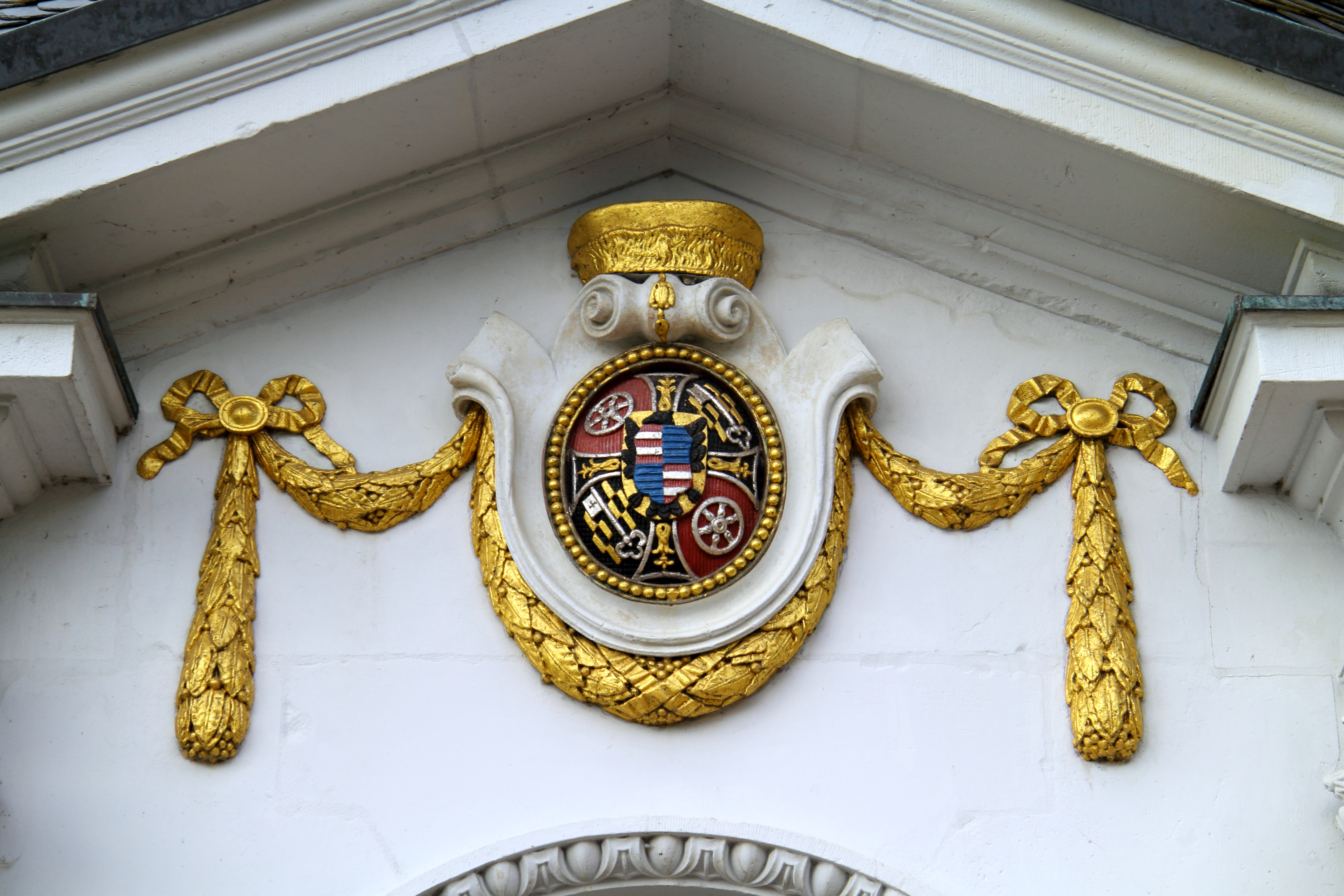 "Breakfast Gazebo" in the palace garden of Schloss Johannisburg in Aschaffenburg / Germany, detail showing the coat of arms of the builder Friedrich Karl Joseph von Erthal, archbishop of Mainz and prince elector as well as prince bishop of Worms